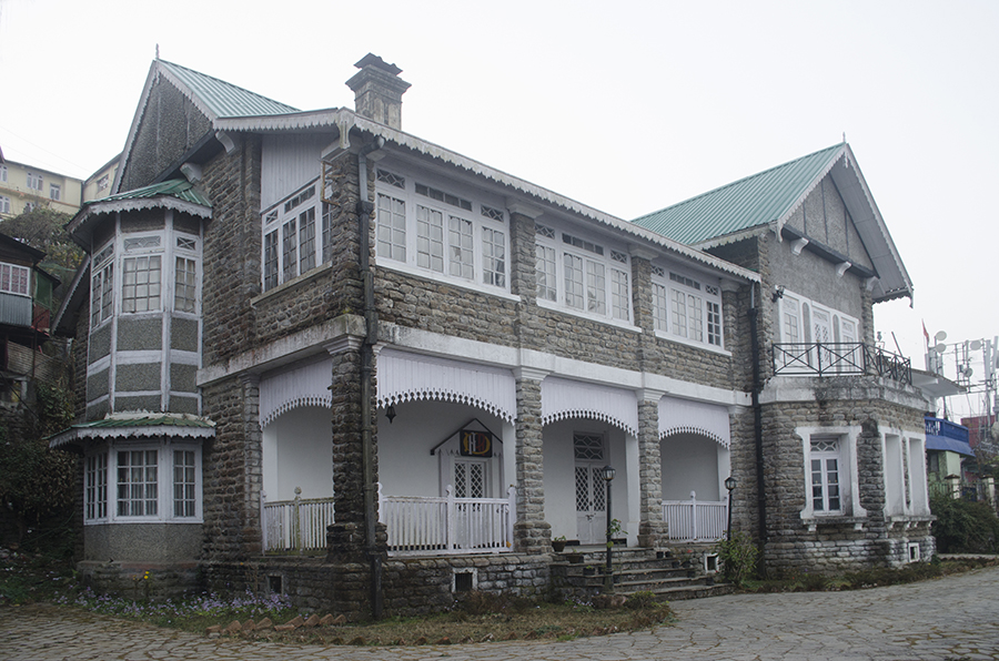 Elysia Place, Kurseong. Head Quarters of DHR